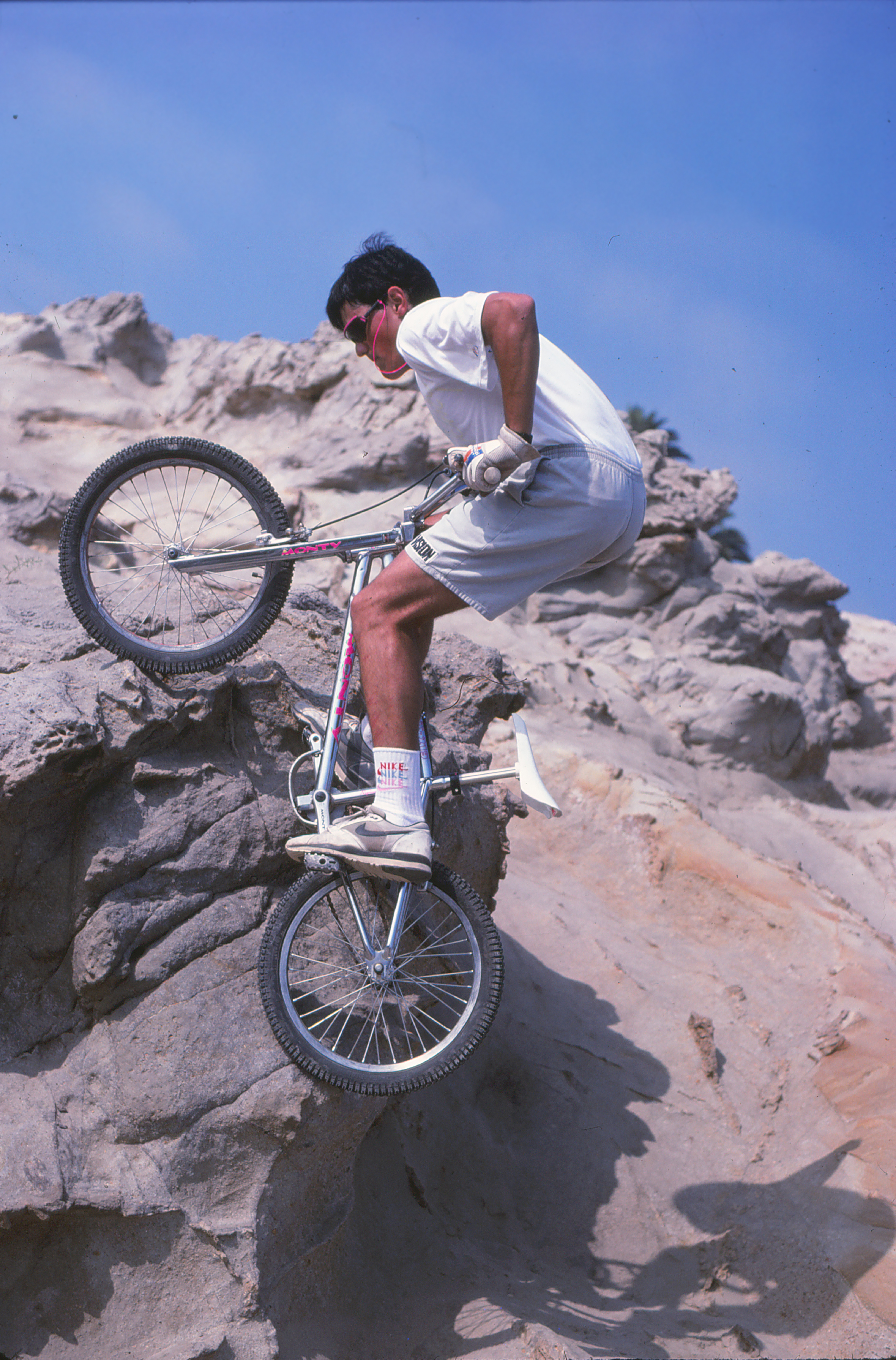 Ot Pi Isern performs Trials for "Ultimate Mountain Biking" video at Corona Del Mar, California, 1988. Photograph by Patty Mooney of San Diego, California